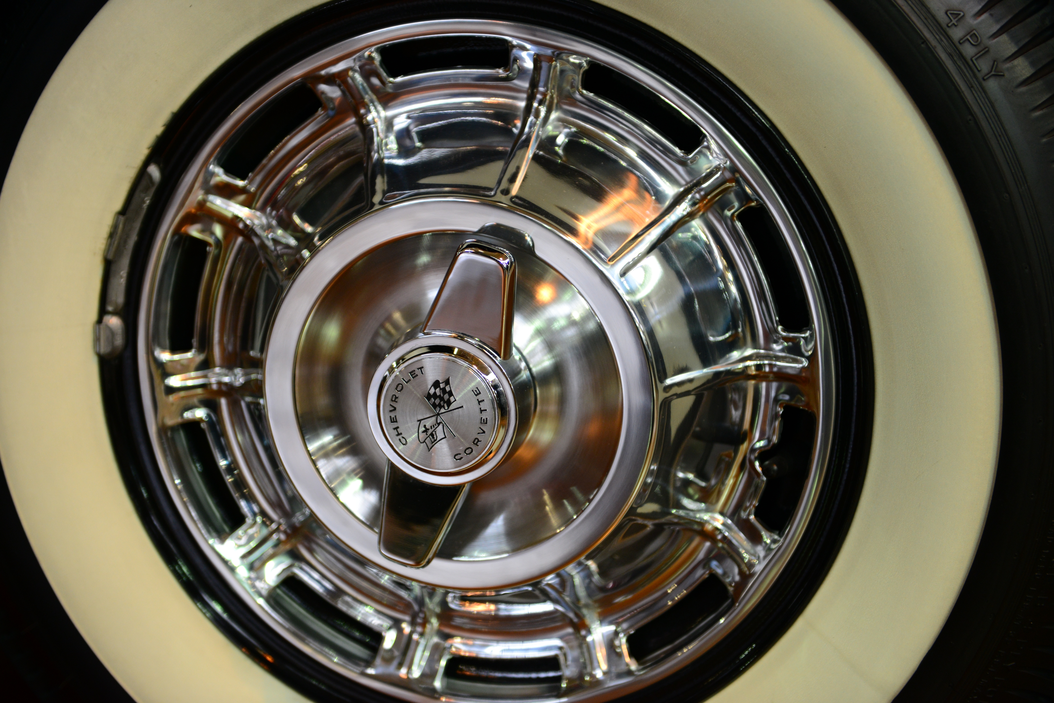 C4B-03 POST-WAR CLASSIC (AMERICAN & AUSTRALIAN) The 1957 Chevrolet Bel Air is often described as America's favourite car and was popular on the roads, race tracks and drag strips in their early days before becoming sought after items with restorers, hot rodders, collectors, modifiers and general enthusiasts the world over. A small number of these cars were assembled in Australia by General Motors (Holden) as standard 210 model 6-cylinder 4 door sedans, as was common for Chevrolet through the 50s and into the 60s. An even smaller number of equivalent cars in the 4-door hardtop design, known as Sports Sedan, were imported ready-assembled as special orders. (Info from the podium near by)